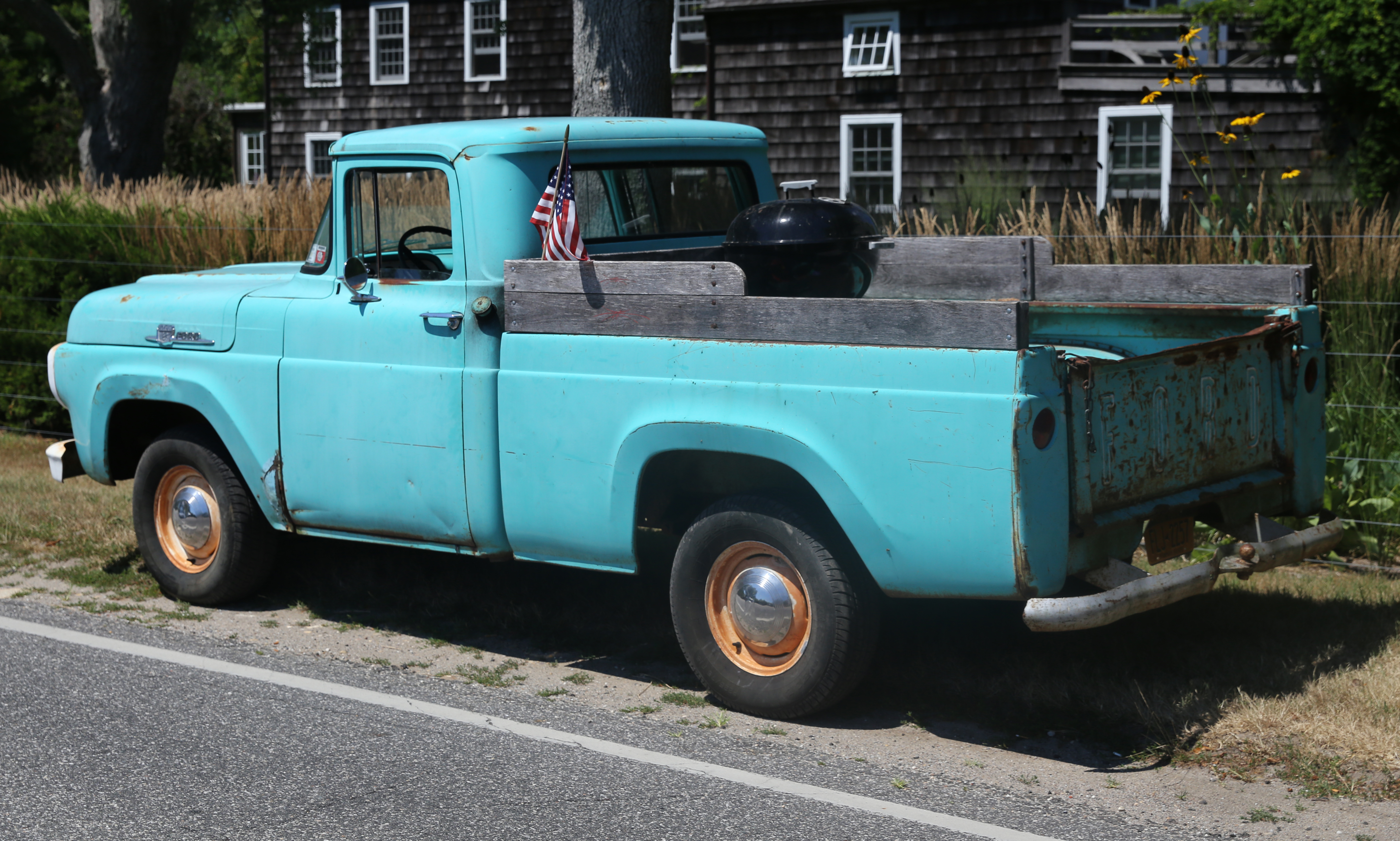 A 1959 Ford F-100 flareside truck, still working it seems.